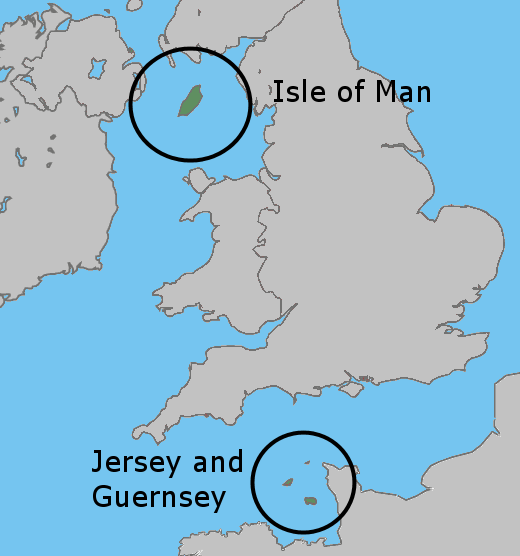 Image of the Crown Dependencies